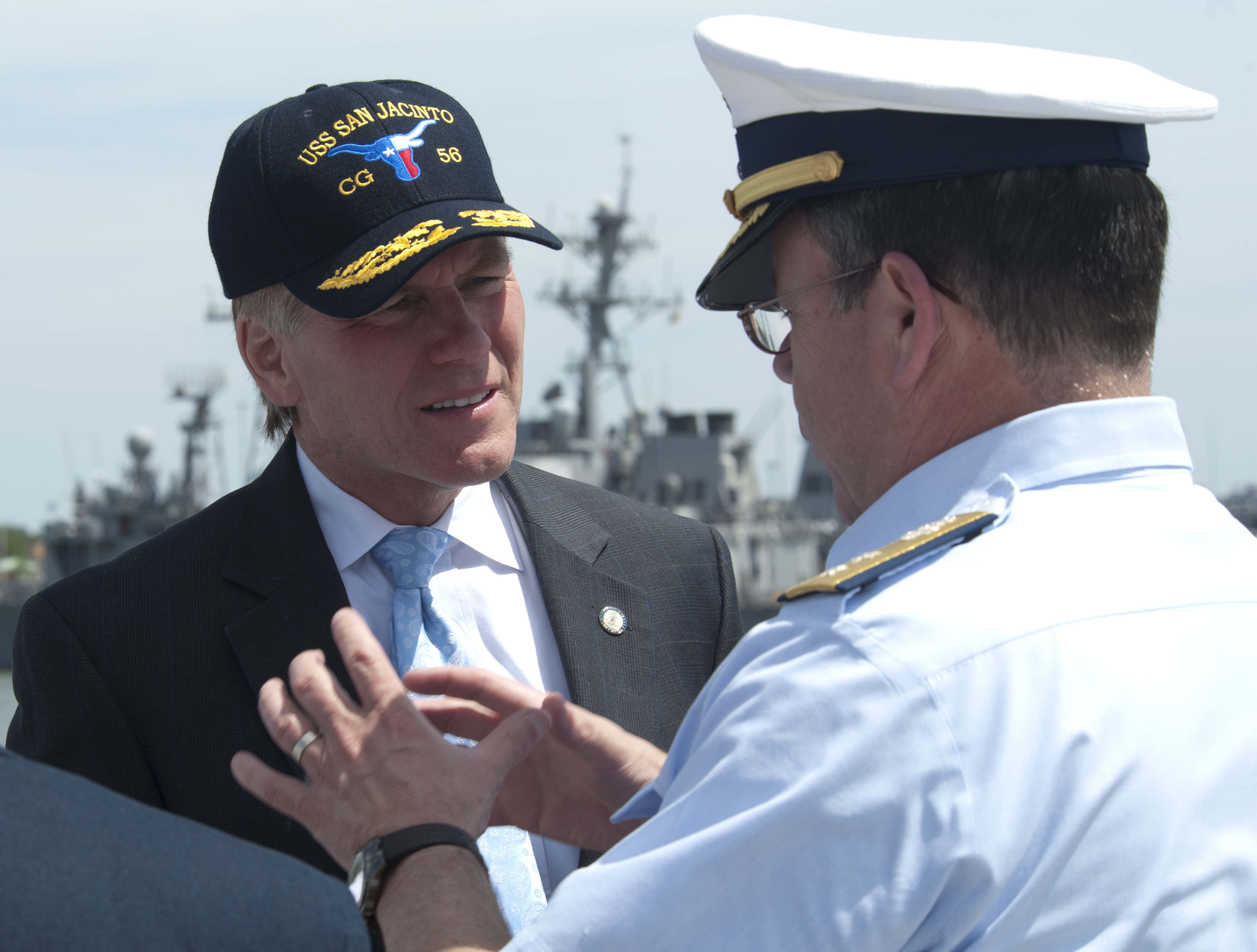 Virginia Gov. Robert McDonell speaks with U.S. Coast Guard Vice Adm. Robert Parker, commander of the Coast Guard Atlantic Area, after a military appreciation proclamation ceremony aboard the guided-missile cruiser USS San Jacinto (CG 56). The proclamation reaffirmed the Commonwealth of Virginia's support of the U.S. military, service members, families and veterans. (U.S. Navy photo by Mass Communication Specialist Seaman Molly Anne Greendeer)